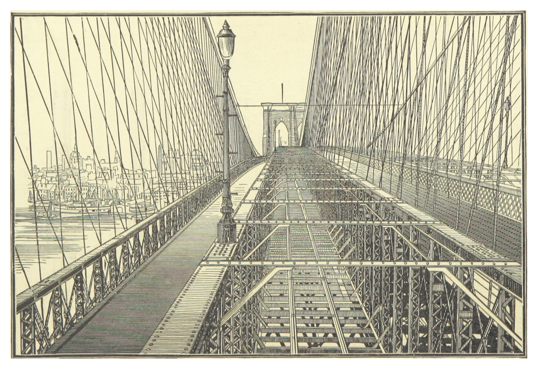 View from platform around central pier of Brooklyn Tower, looking towards New York. On the left is seen one of the carriage-ways; adjoining it, one of the railway tracks; adjoining that, is the promenade for foot-passengers. On the extreme right, can be seen the trestle-work over the other railway track; the other cariage-way cannot be seen from this view.